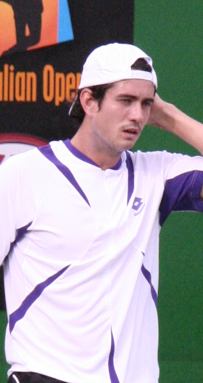 Guillermo Garcia-Lopez at the 2007 Australian Open, during his first-round mens double match, partnering Tomas Behrend.